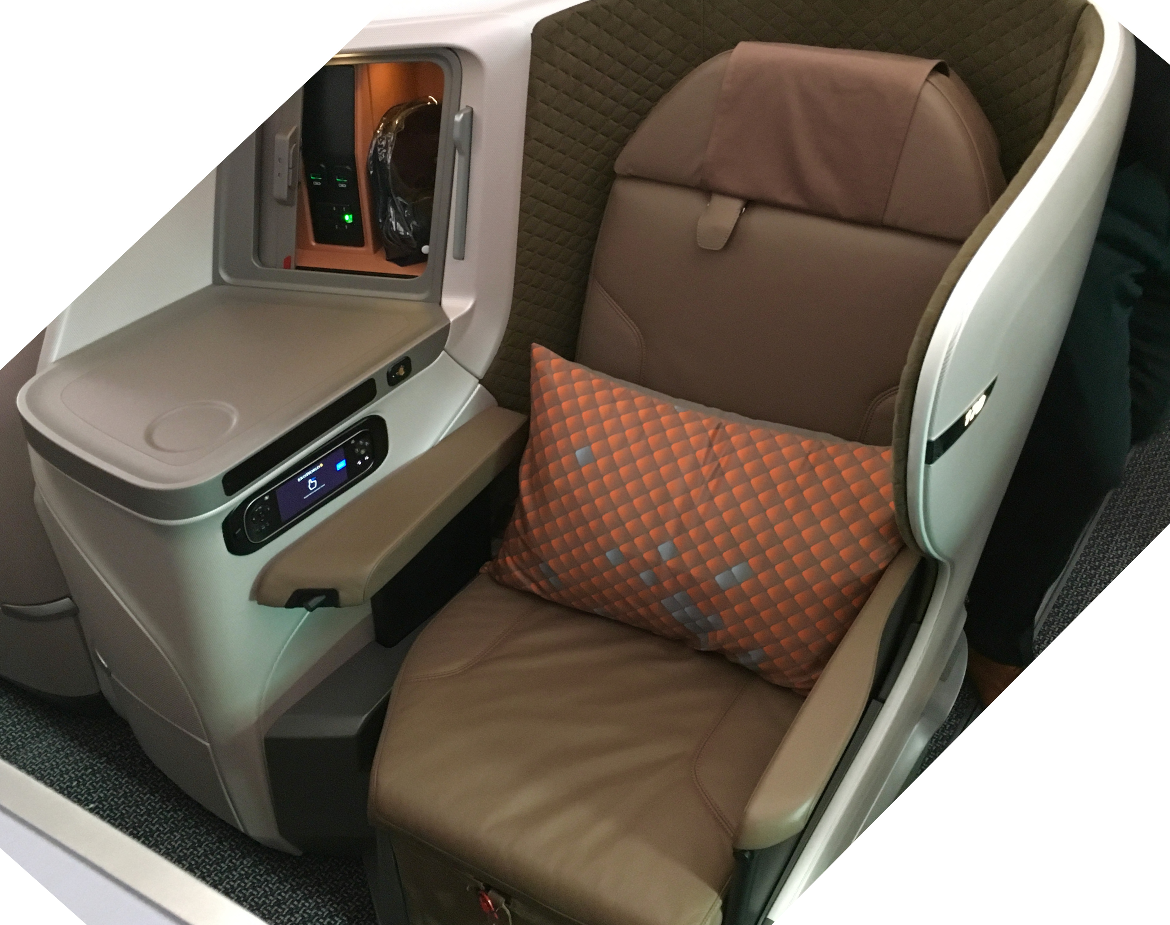 Singapore Airlines 787-10 regional business seat.